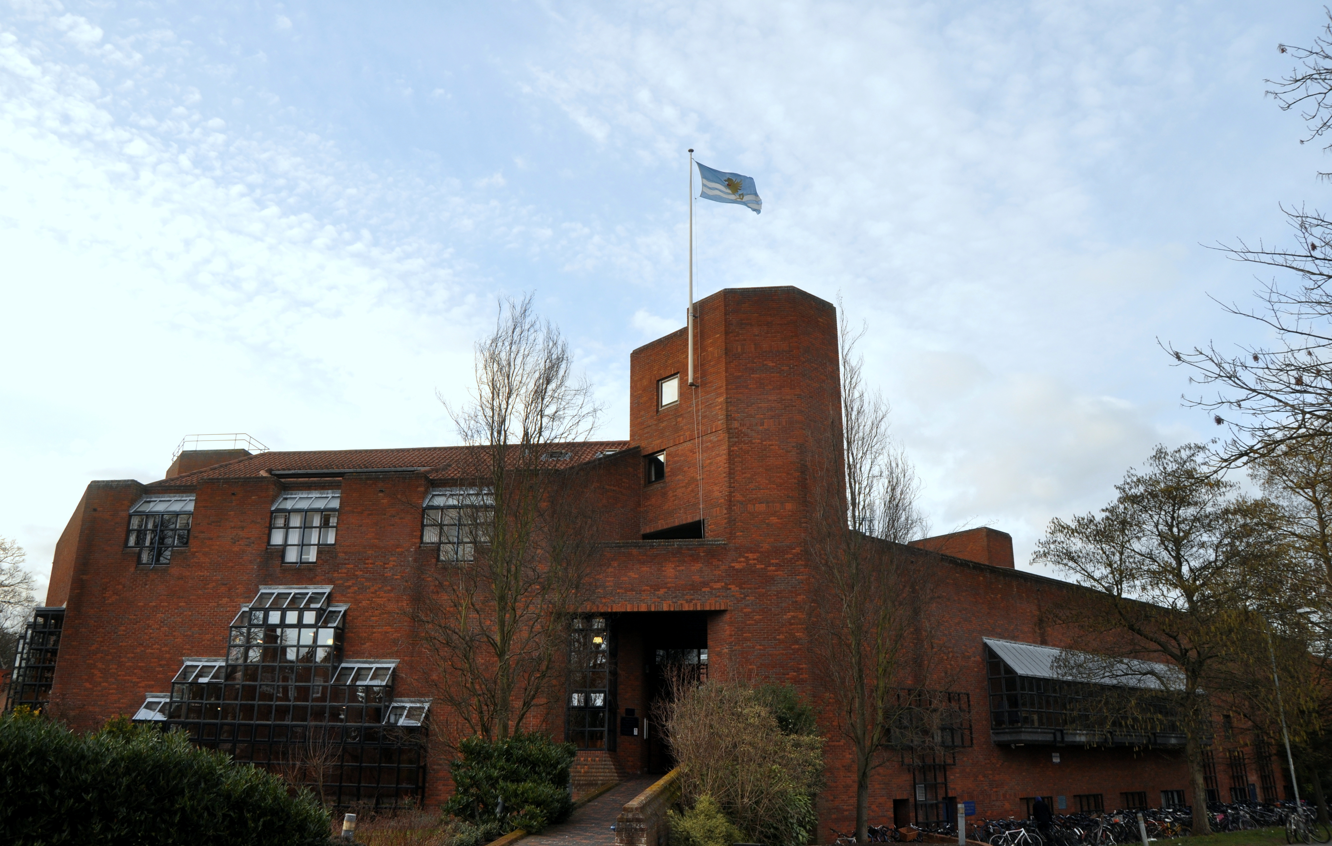 Fascade of Robinson College